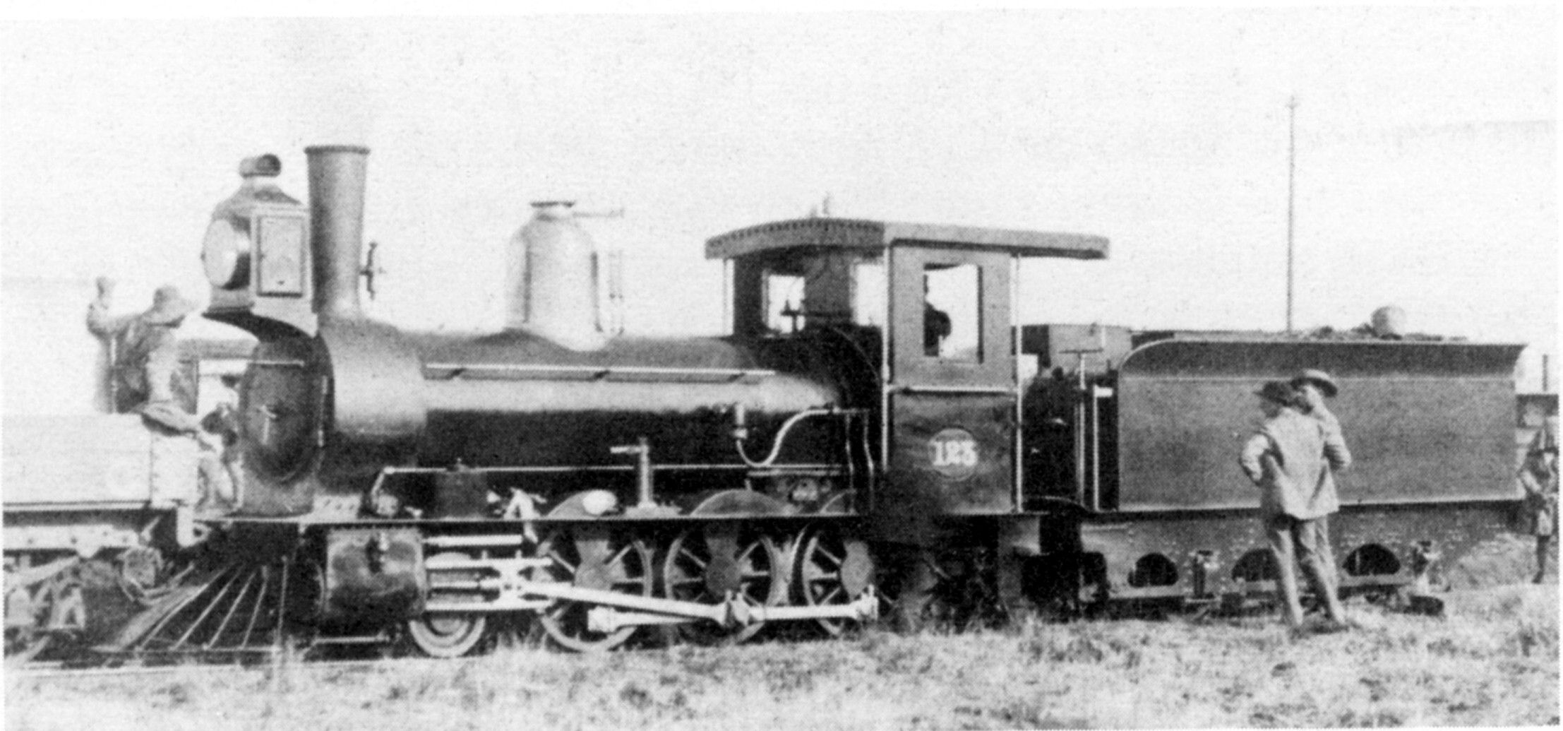 Cape Government Railways 1st Class 2-6-0 no M23 of 1876 as delivered by Kitson, later converted to saddle-tank. Renumbered 123 in 1886, 223 in 1890, 423 in 1896 and 0423 in 1912.